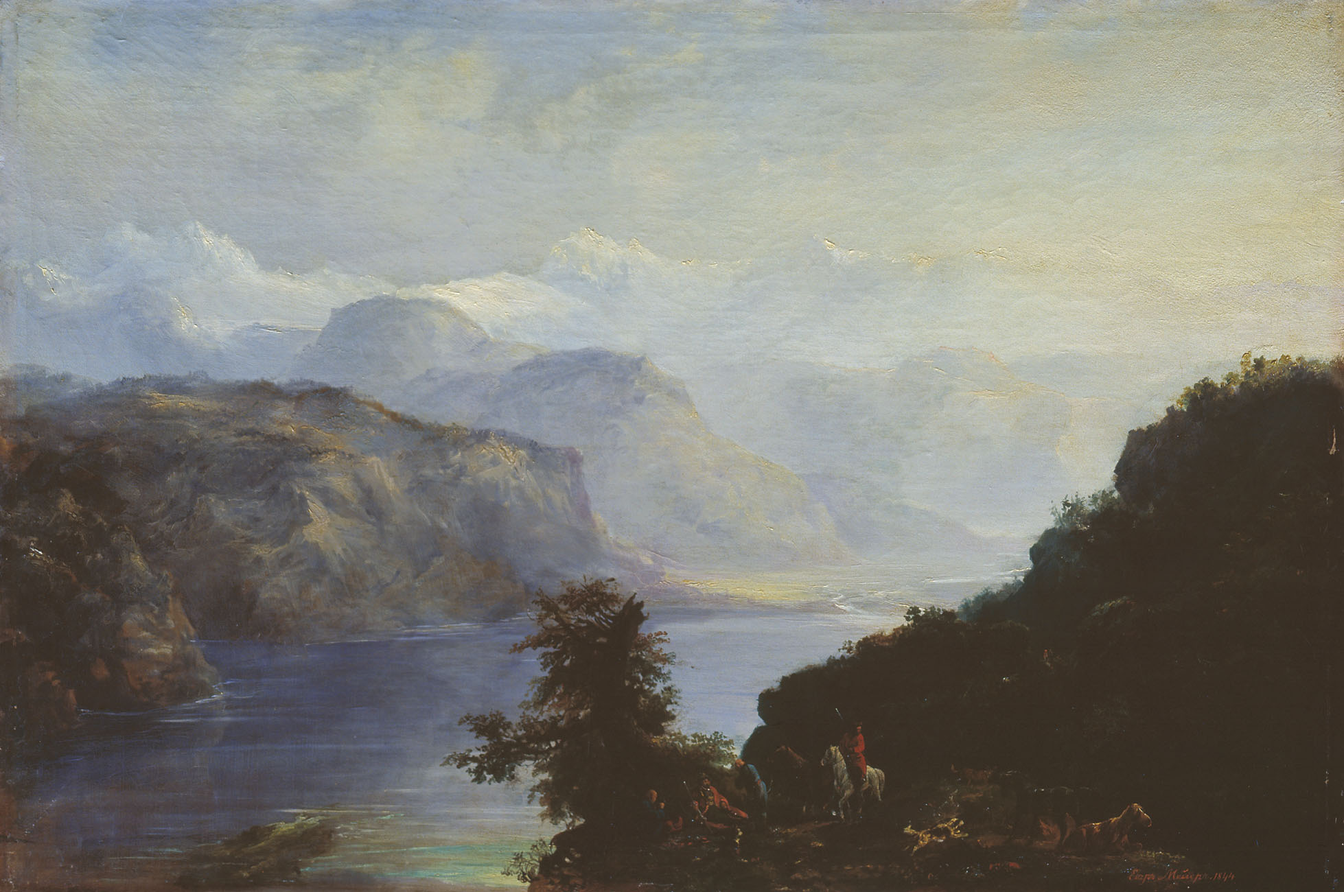 Yegor Yegorovich Meyer (1822-1867) was painter and graphic artist. He studied at the Imperial Academy of Arts (1838–45) and was awarded a major gold medal and the title of fourteenth-class artist in 1845.